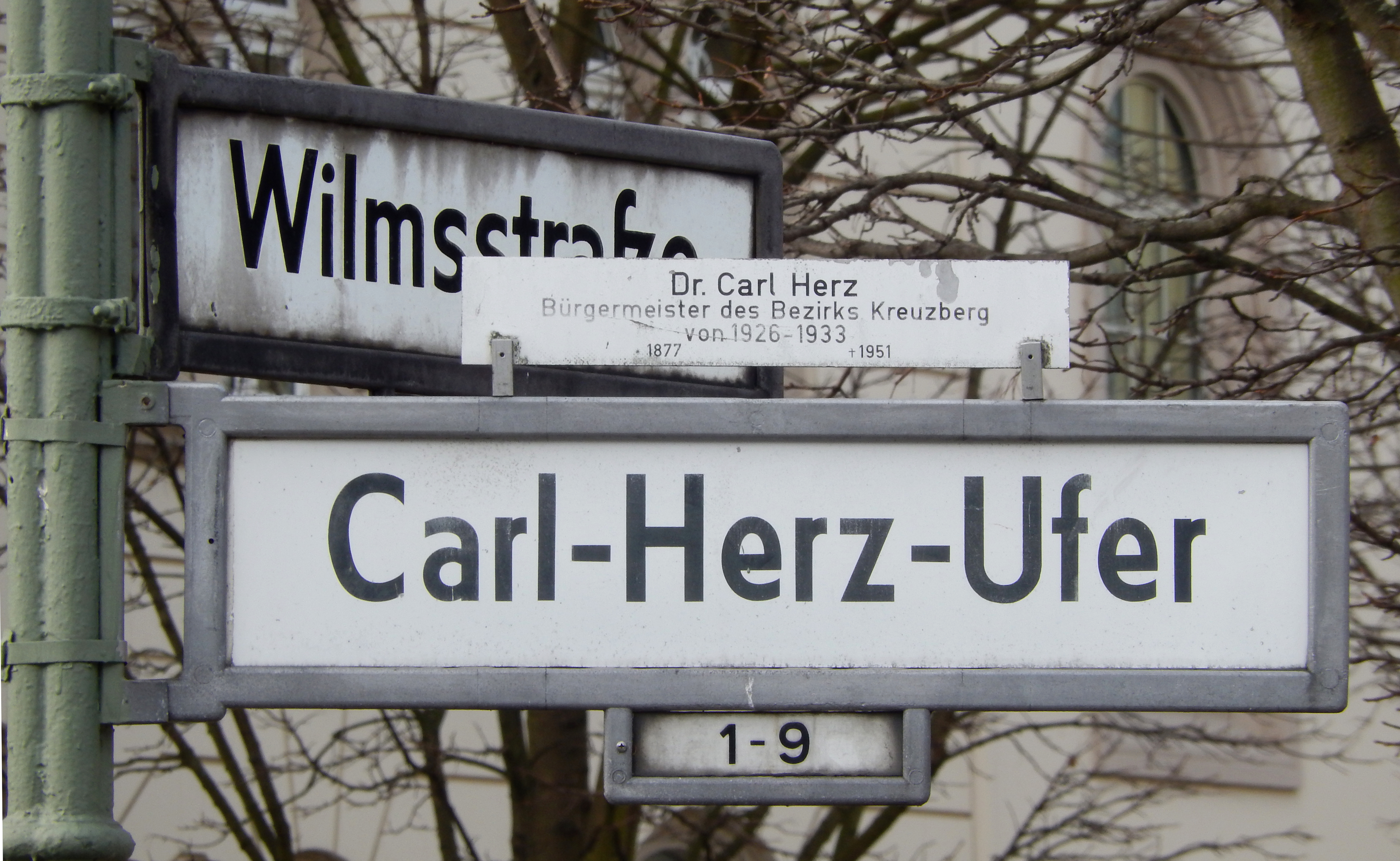 street sign Carl-Herz-Ufer, Berlin-Kreuzberg, Germany